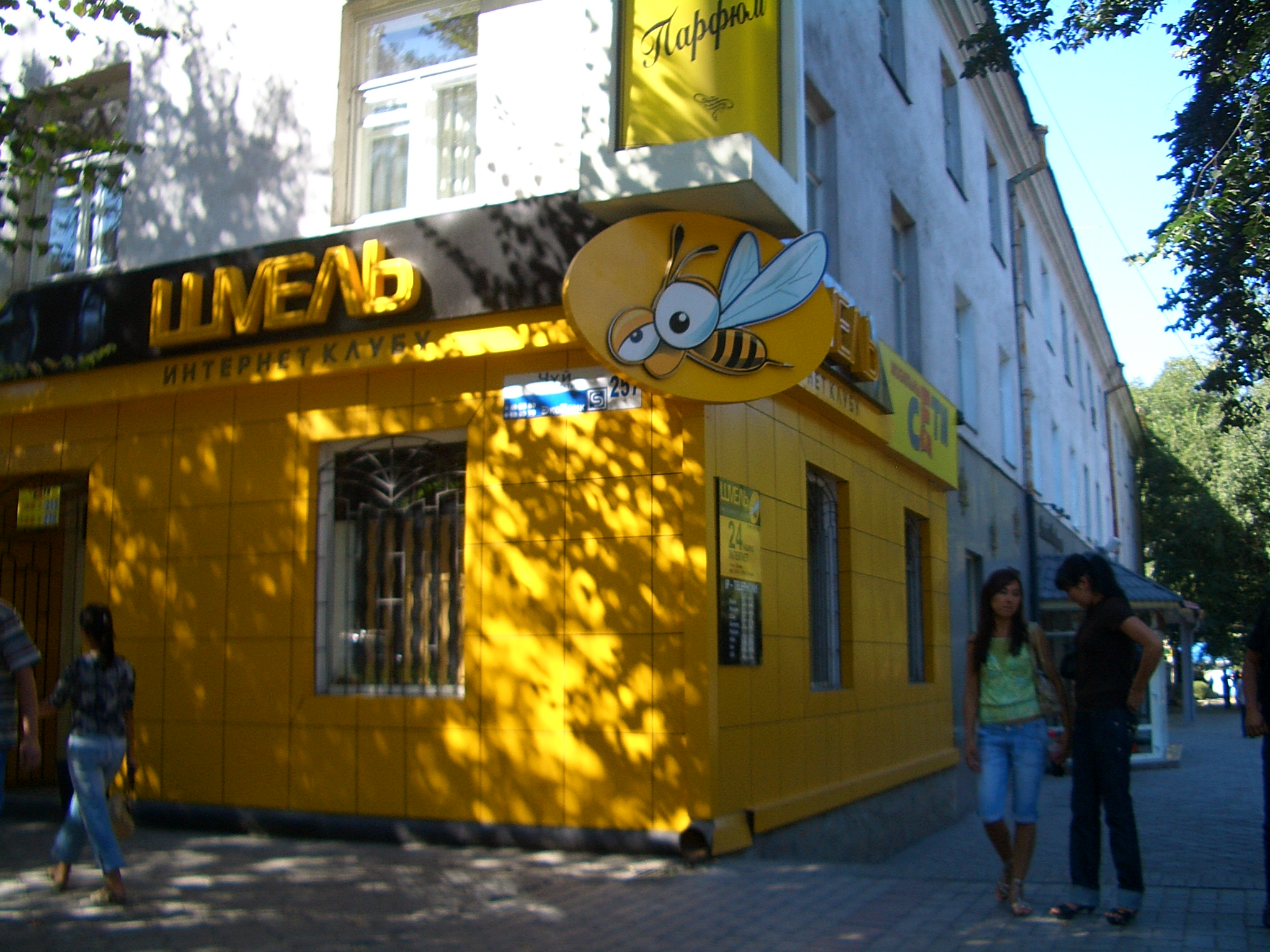 An Internet cafe (part of the Shmel ('Bumblebee') chain) in Bishkek's central Chuy Avenue